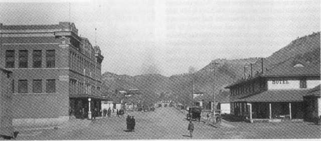 Main Street of Dawson, New Mexico. Taken in 1916, now a ghost town.